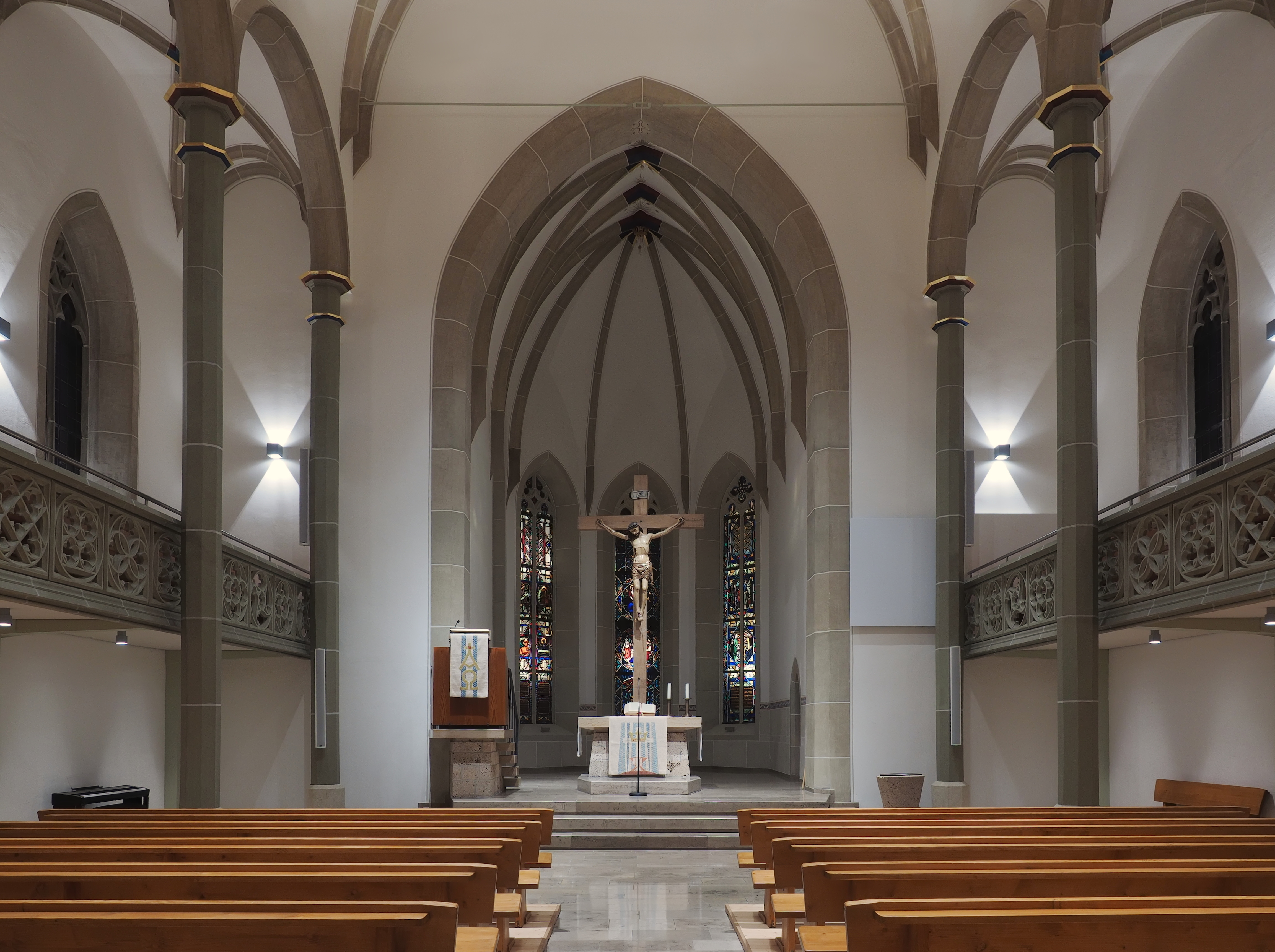 Mergelstetten Protestant Church inside, Heidenheim, Germany.